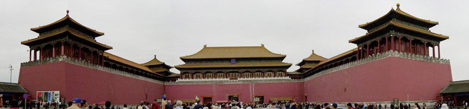 "Wu men" (view N) Meridian Gate in the Forbidden City, Bejing. Composite image from three pictures taken by User:Leonard G., September 19, 2002